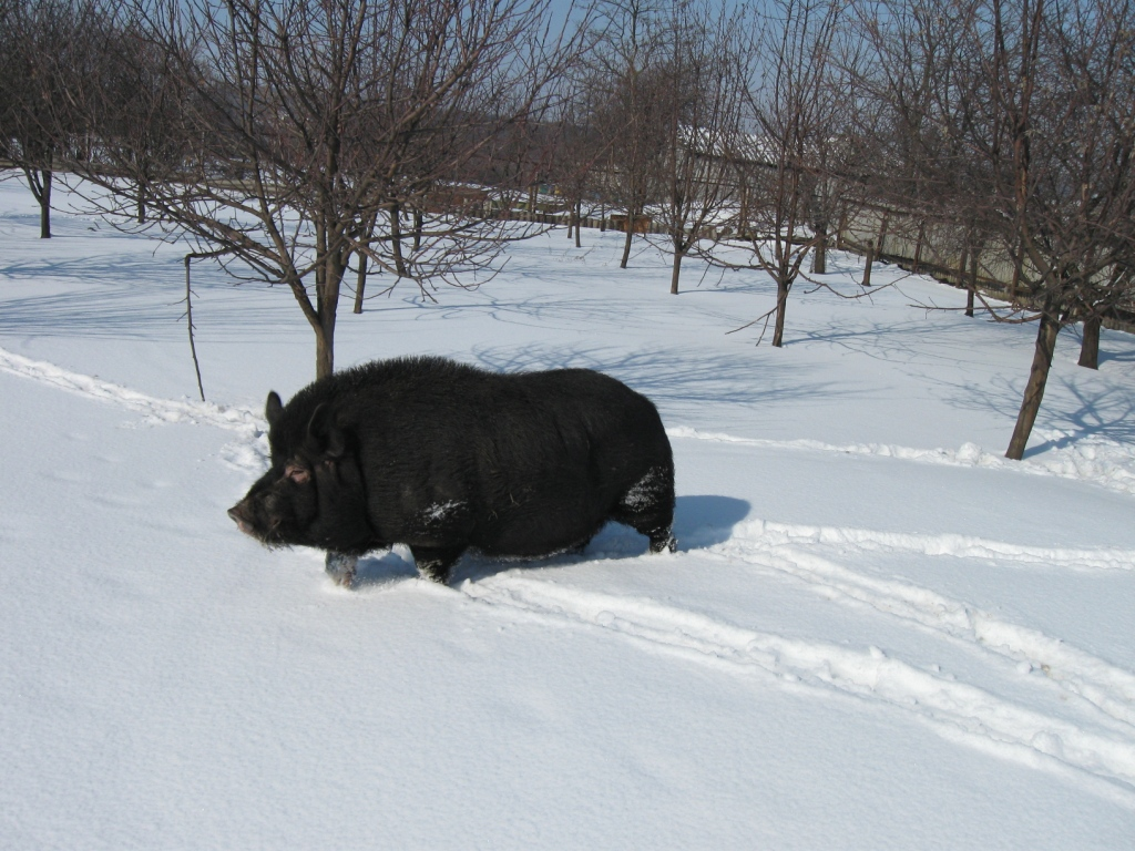 A boar of the pot-bellied pig breed, age 3 years, nicknamed Zeus.